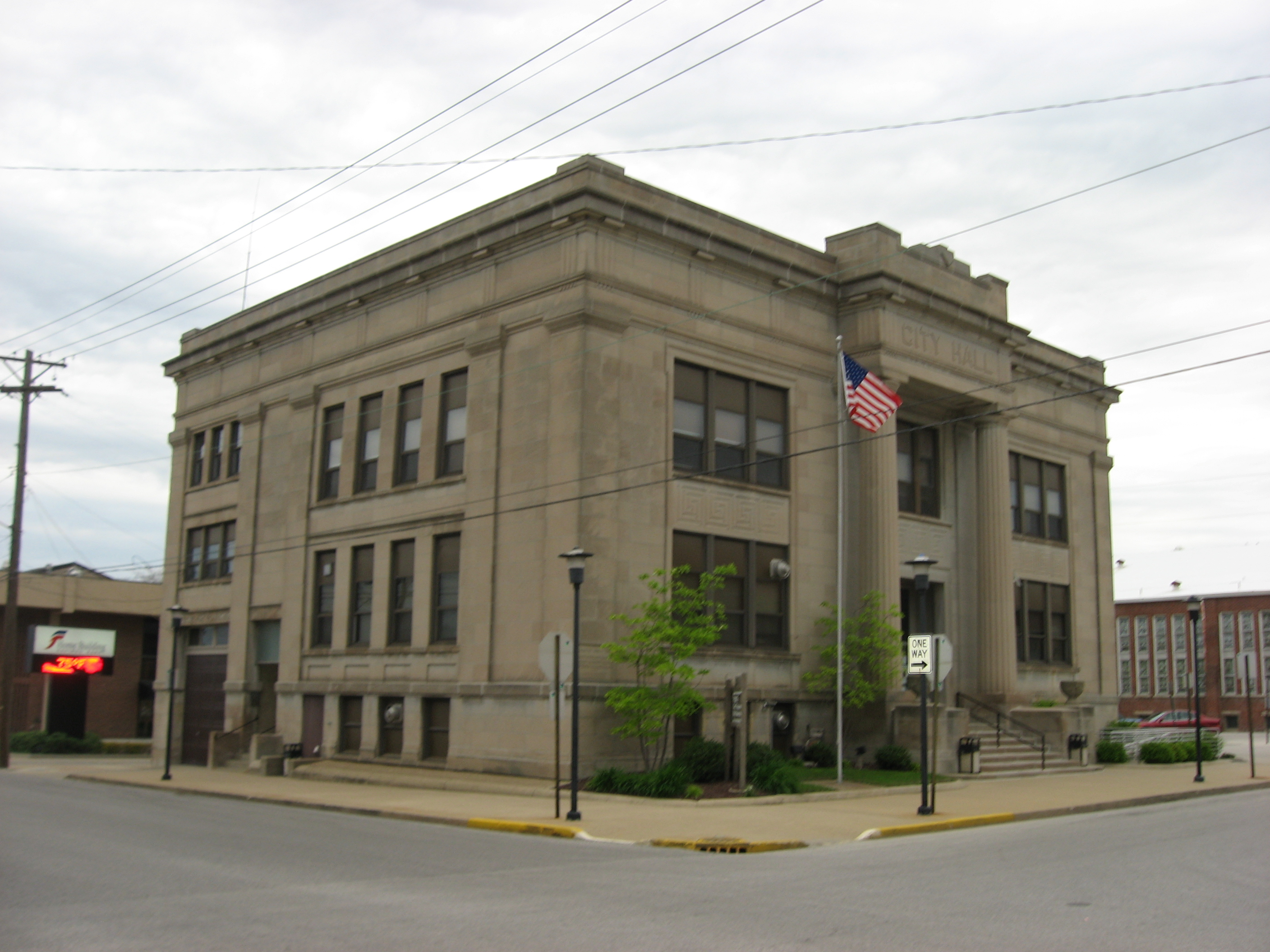 Front and southern side of City Hall in Washington, Indiana, United States. Built in 1916 at 101 NE. Third Street, it is part of the Washington Commercial Historic District, a historic district that is listed on the National Register of Historic Places.